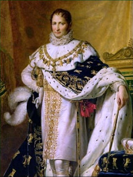 Joseph Bonaparte, King of Spain